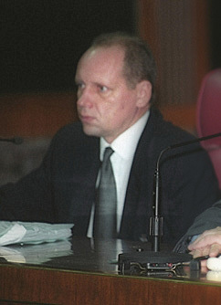 HAVANA. President Putin at a news conference.